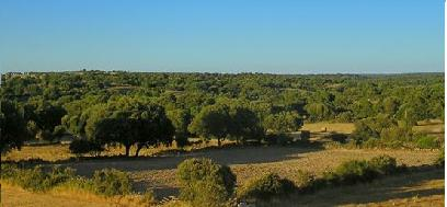 Salmantino Paisaje